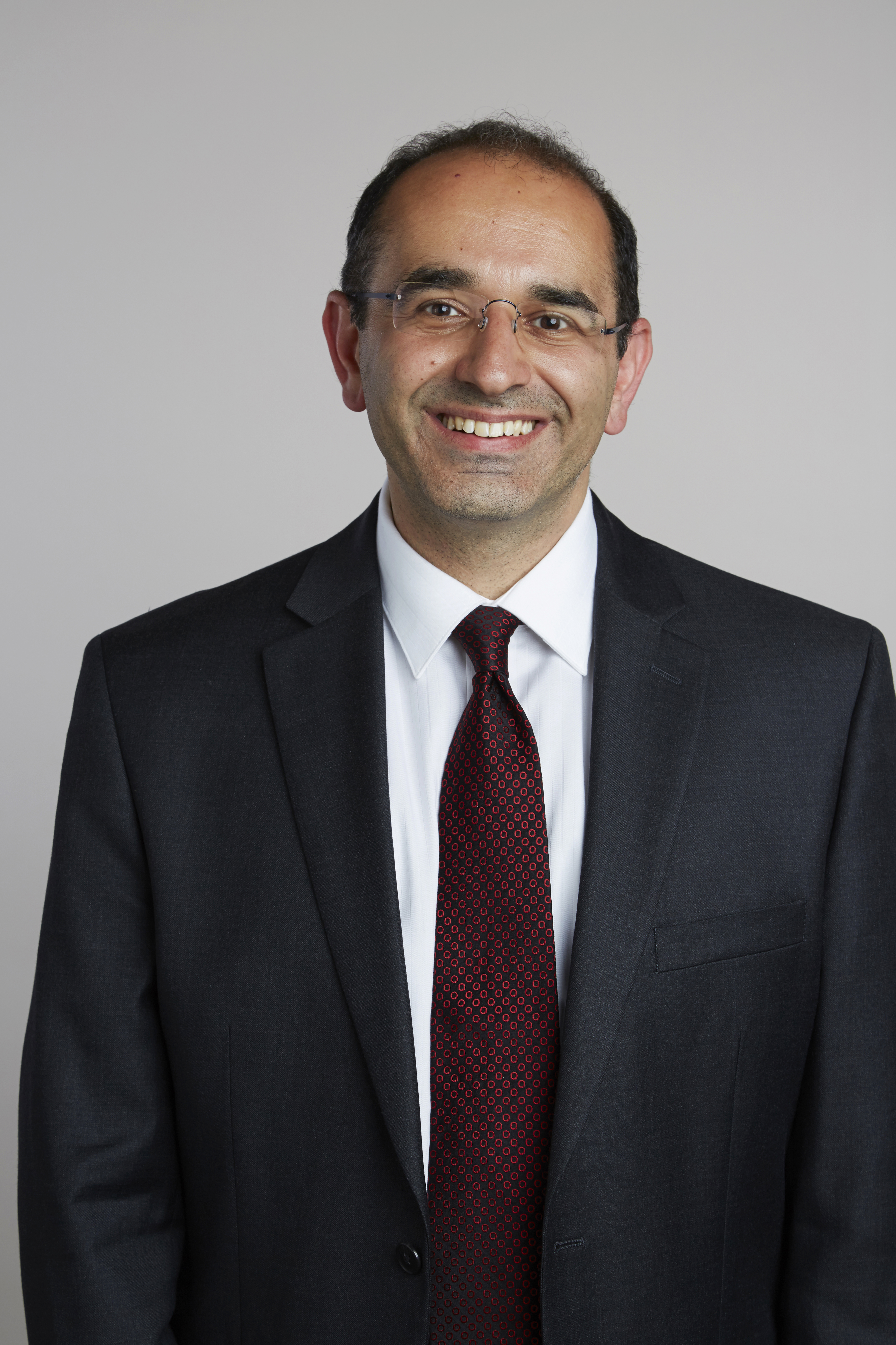 Zoubin Ghahramani is a world leader in the field of machine learning, significantly advancing the state-of-the-art in algorithms that can learn from data. He is known in particular for fundamental contributions to probabilistic modeling and Bayesian nonparametric approaches to machine learning systems, and to the development of approximate variational inference algorithms for scalable learning. He is one of the pioneers of semi-supervised learning methods, active learning algorithms, and sparse Gaussian processes. His development of novel infinite dimensional nonparametric models, such as the infinite latent feature model, has been highly influential. Attribution: The Royal Society